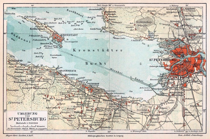 1888 German map of Saint Petersburg